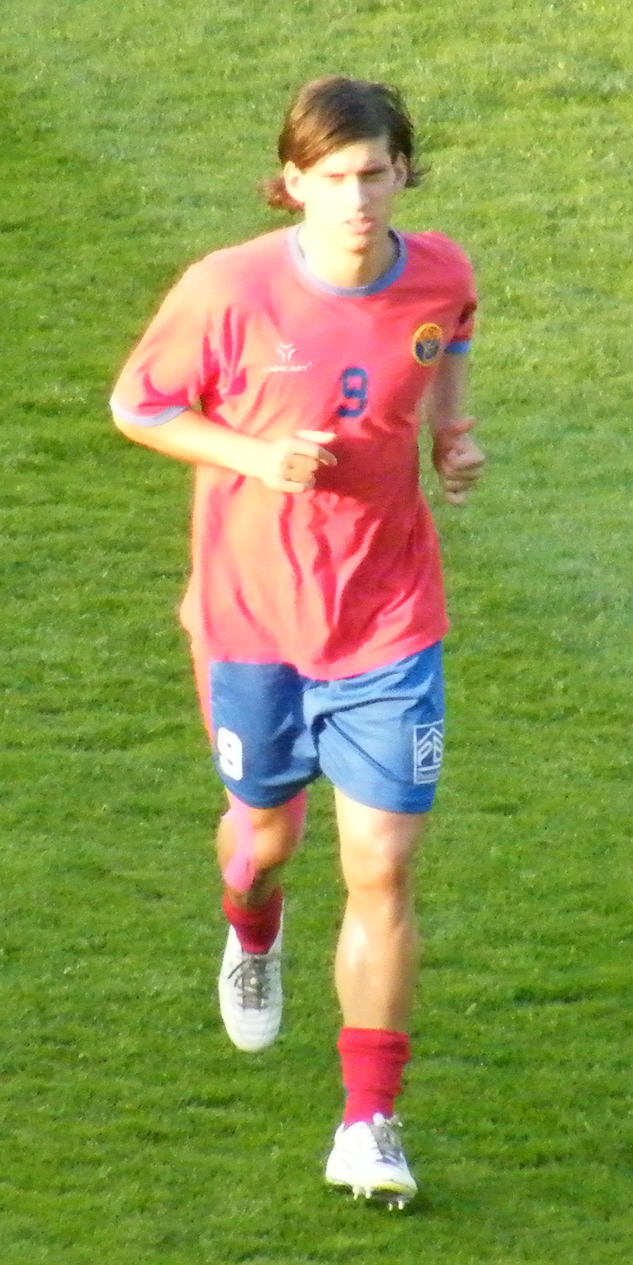 Zsolt Laczkó Hungarian football player